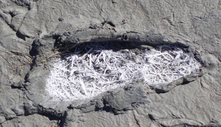 Taken by Lovisa Selander in October 2006. Shows salt crystals in a footprint on the south eastern shore of Lake Poopó outseide the village Llapallapani. Free for anyone to use.